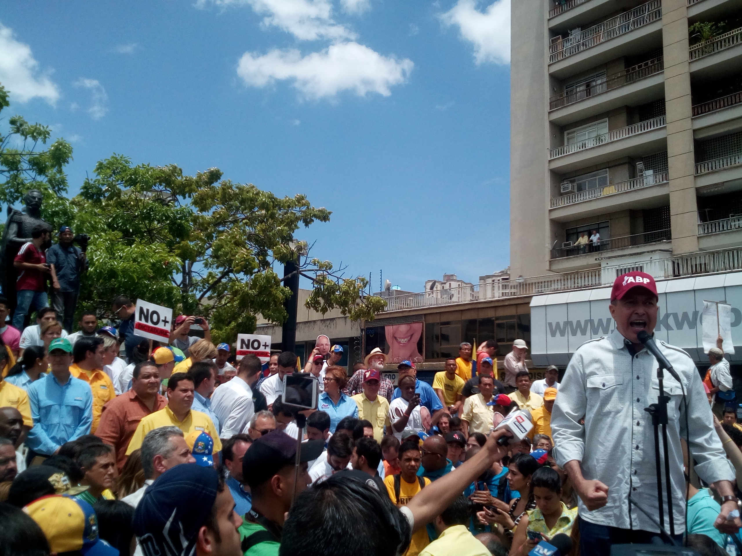 Richard Blanco during the Venezuelan National Assembly special session in Brión Square, Caracas, on 1 April 2017